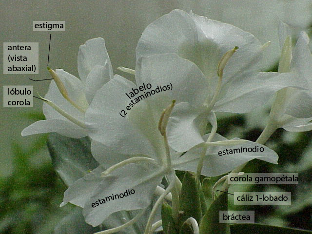 "Species: Hedychium coronarium Family: Zingiberaceae Image No. 1"